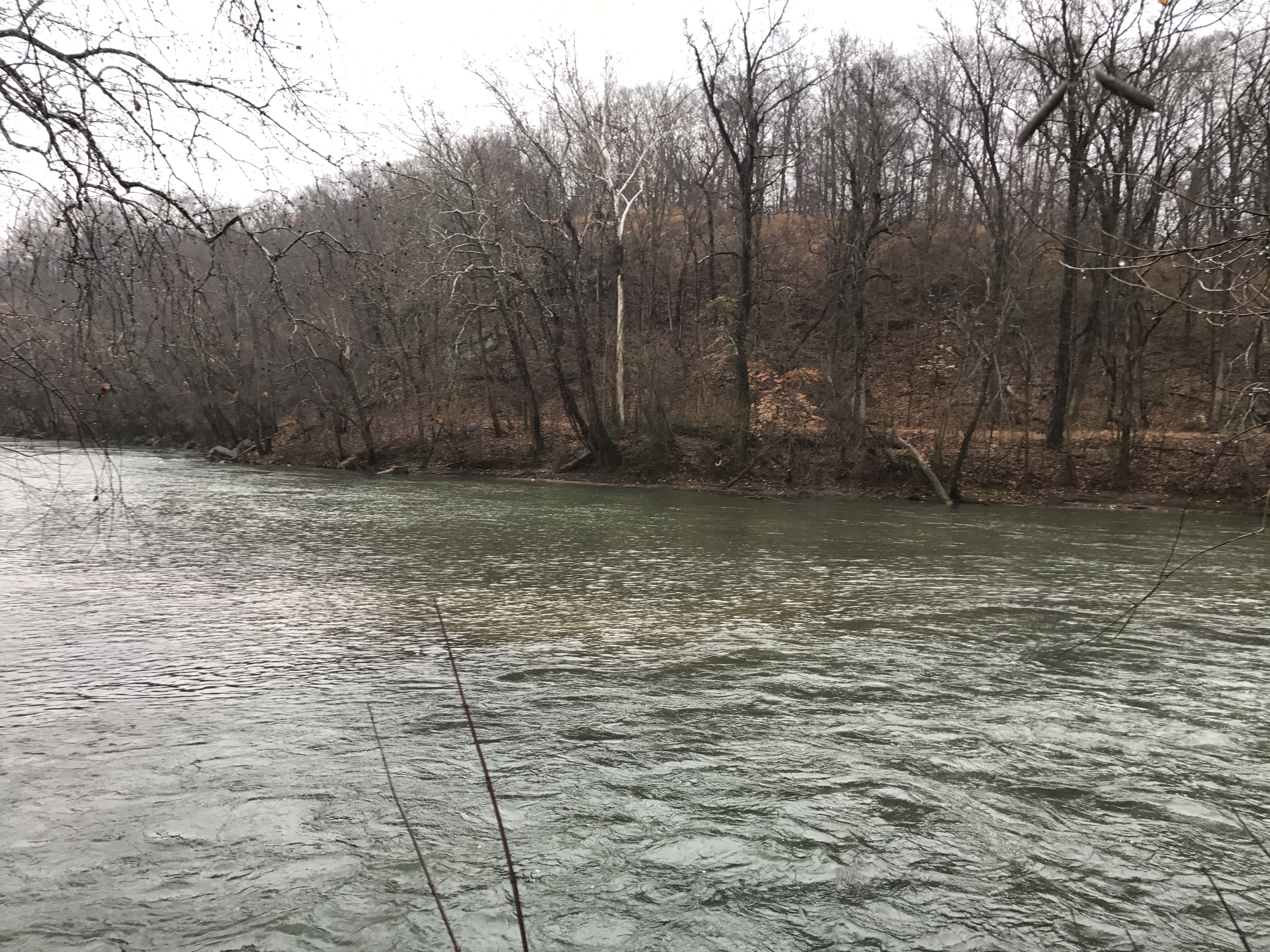 Smith river in Eden, adjacent the former Spray Cotton Mill